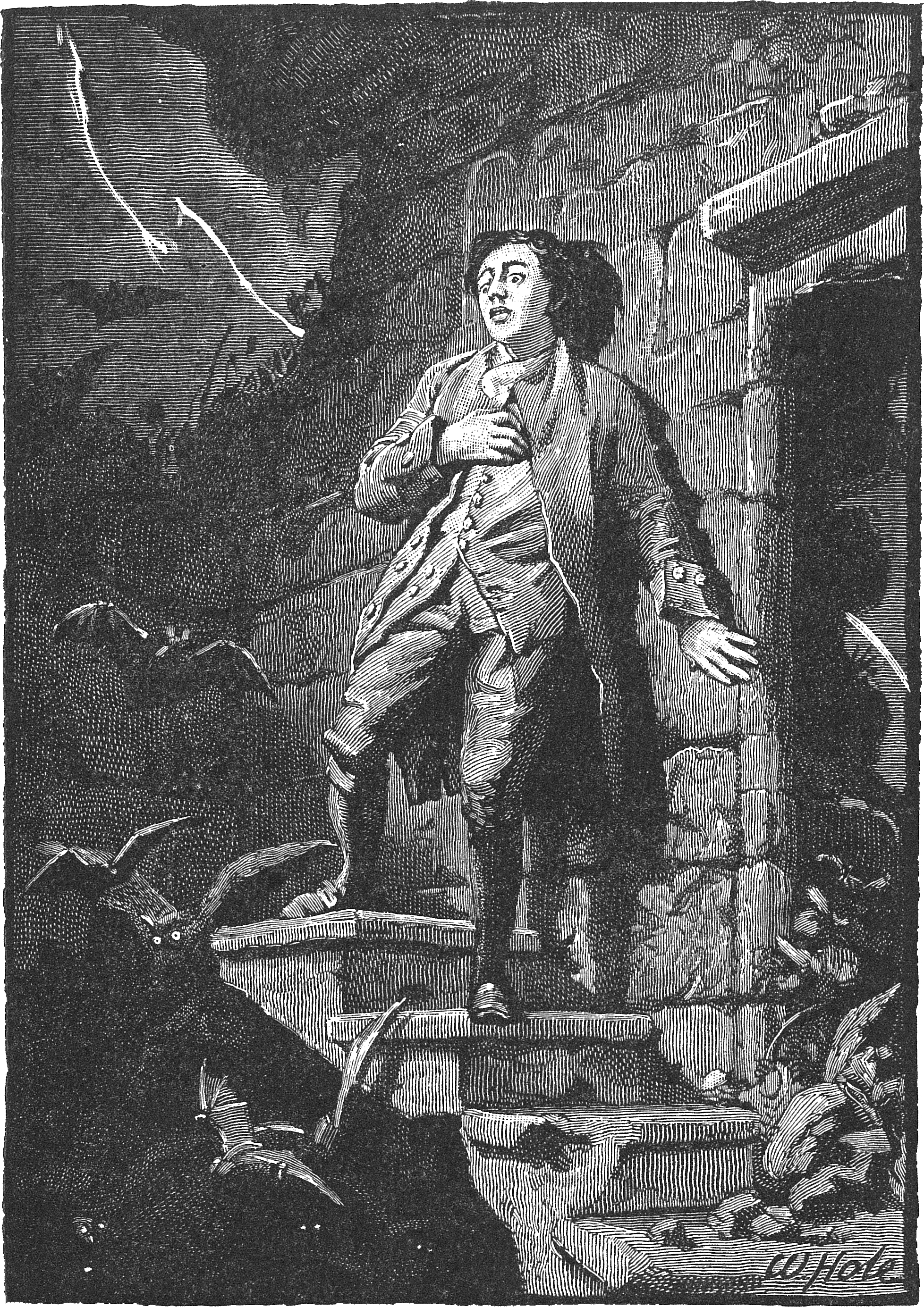 "And then there came a blinding flash", (chapter IV, « I Run a Great Danger in the House of Shaws »)